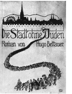 Front page of the book of Hugo Bettauer, Die Stadt ohne Juden, published in 1922